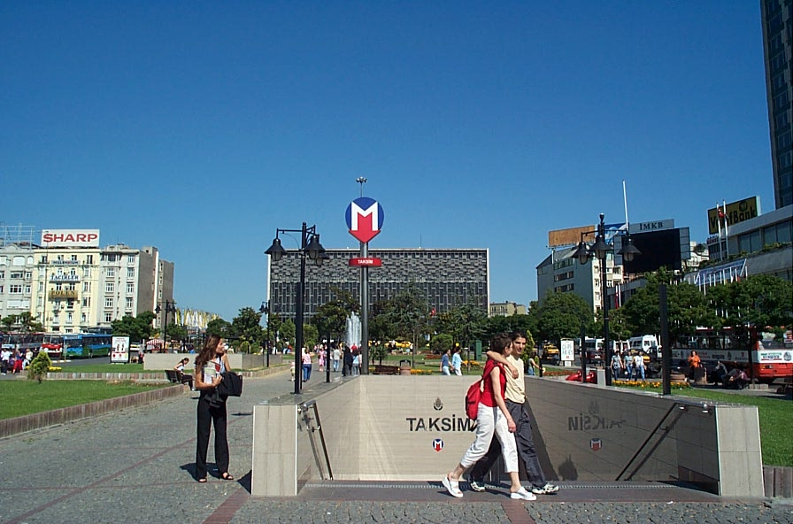 Life at Taksim square, Istanbul